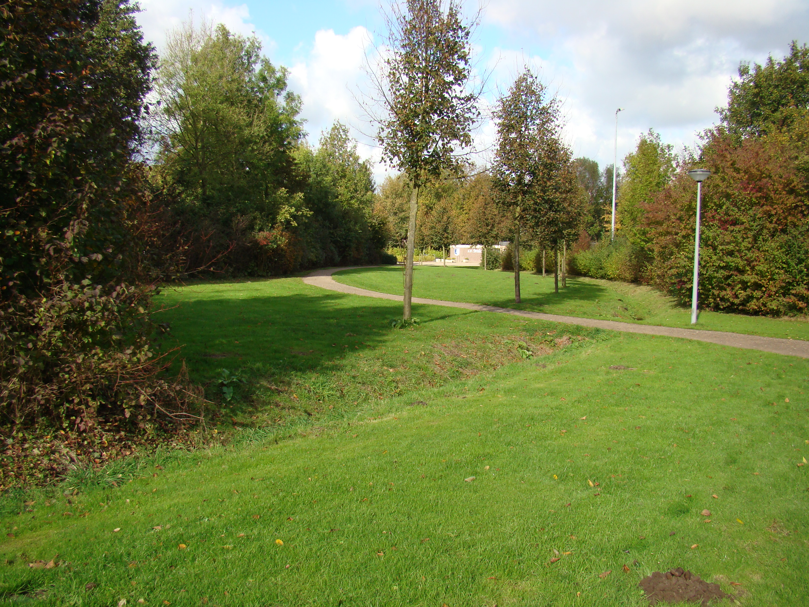 Sportingparc Broock at Bredevoort, Netherlands